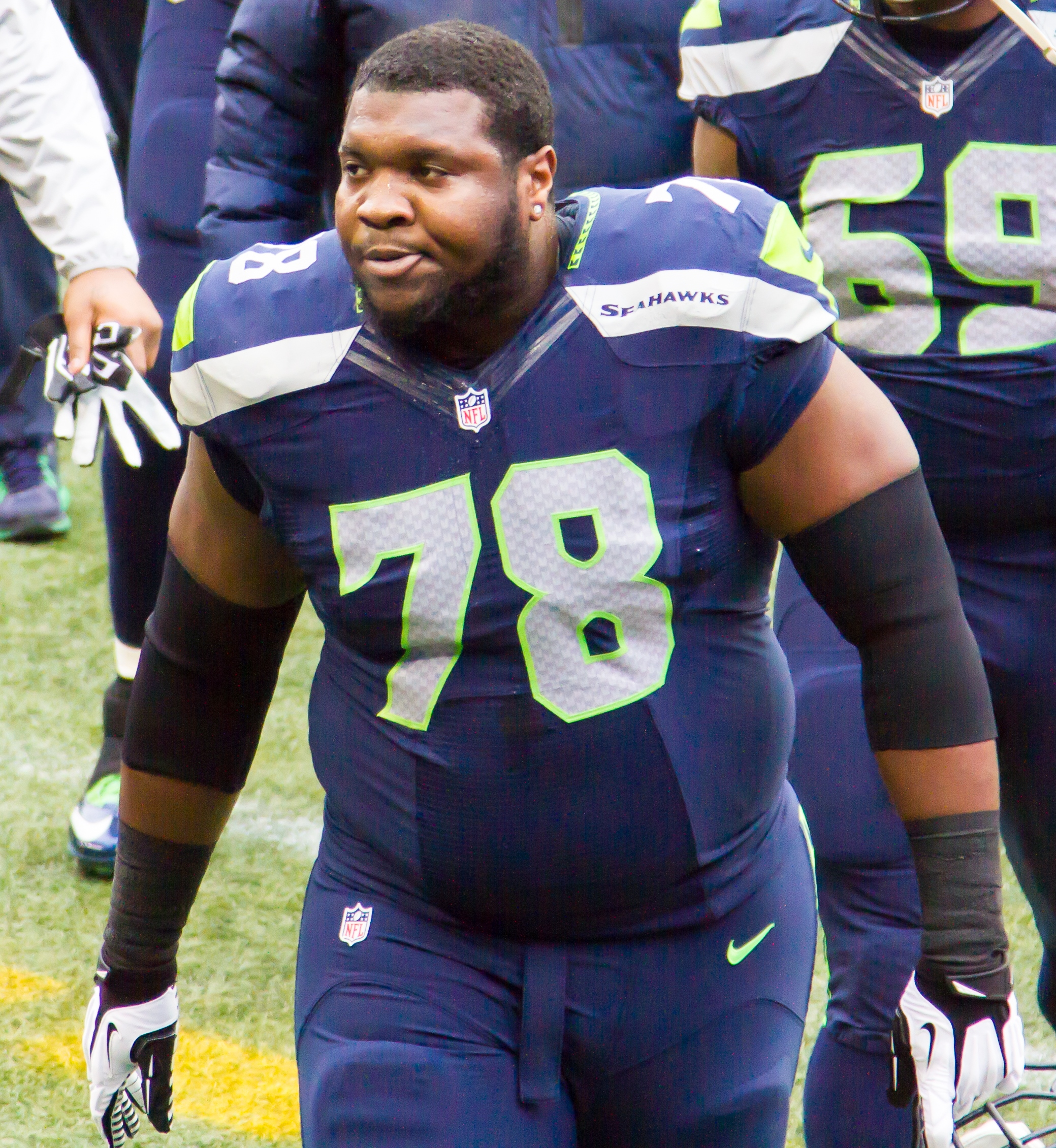 Seattle Seahawks offensive lineman Alvin Bailey